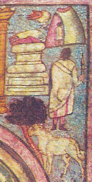 The Sacrifice of Isaac, painted in the Dura Europos synagogue.